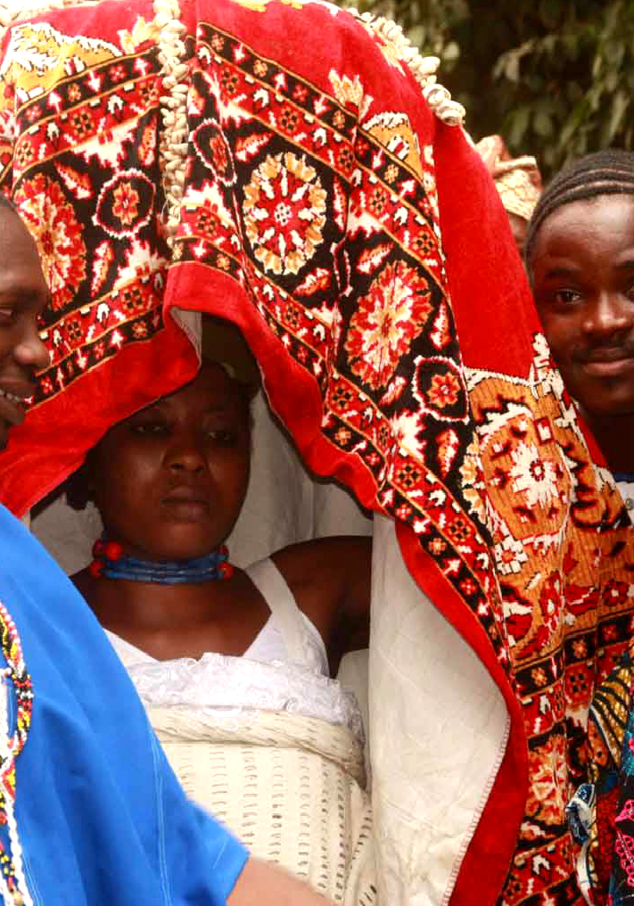 The Arugba leads a procession to the Osun river, Osogbo, Nigeria.